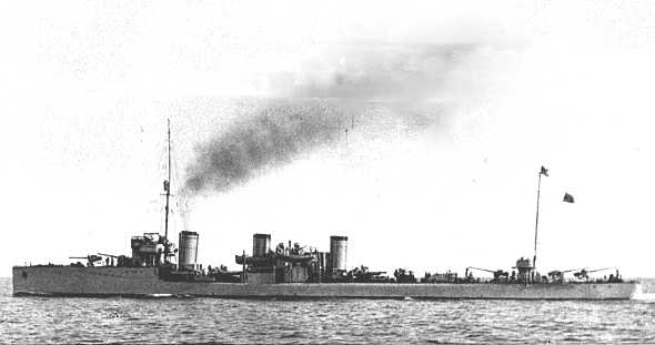 Estonian destroyer Lennuk.